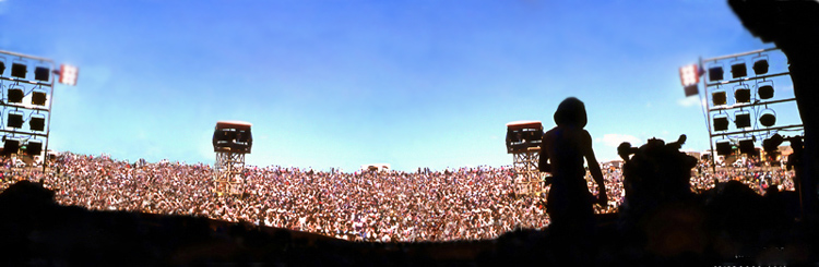 Nambassa 1979 Cultural Performance with Dragon Dance Image (photograph) taken by Official Nambassa Photographer and uploaded by User: Mombas 15:13, 4 May 2007 (UTC), Nambassa dot com Terms of Use: 1/ All users of this image are required to attribute this work to "Nambassa Trust and Peter Terry" and the URL: " " is to accompany all use. 2/ Attribution. You must attribute the work in the manner specified by the author or licensor. 3/ For any reuse or distribution, you must make clear to others the license terms of this work. Statement by Nambassa Trust and Peter Terry